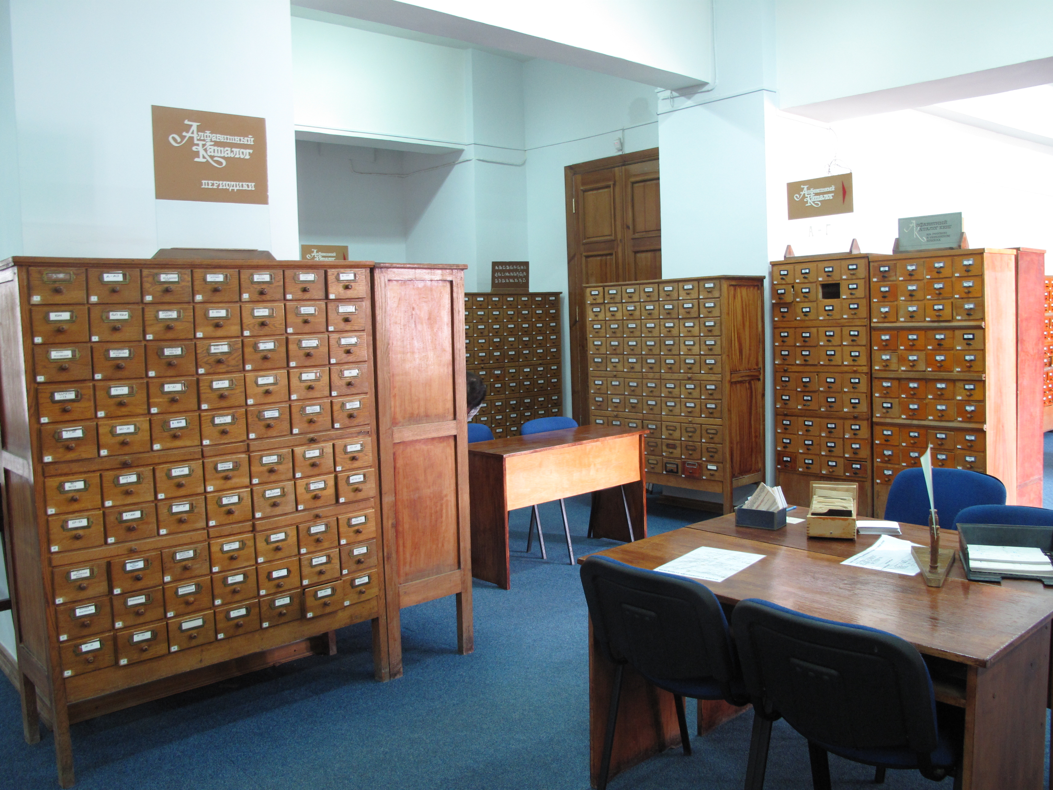 Catalogue in the library